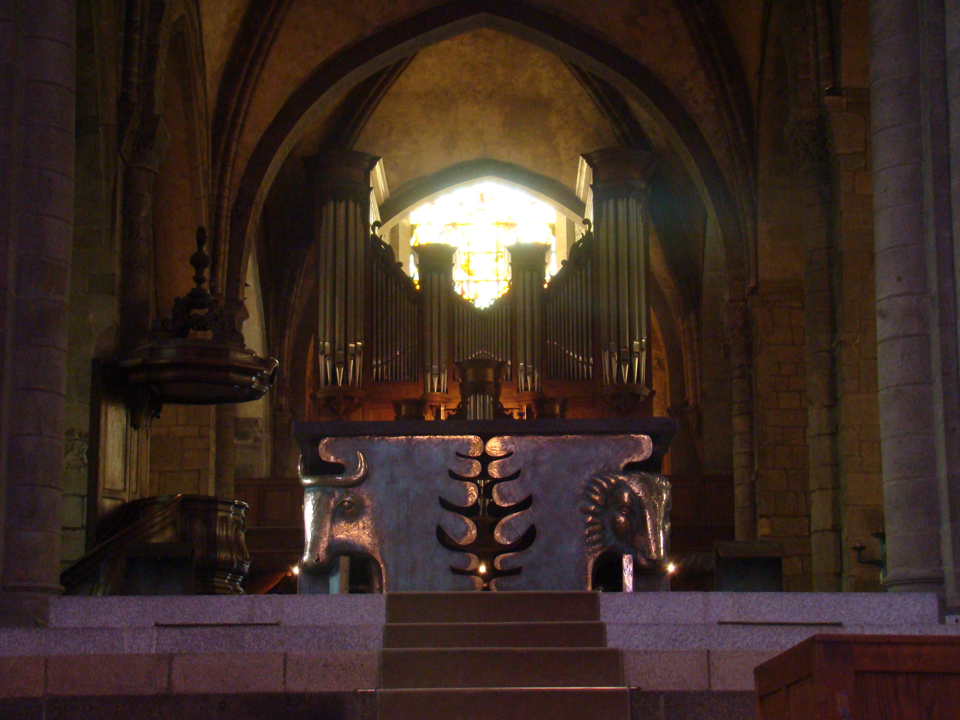 Saint Vincent cathedral - intérieur (Saint-Malo, France)